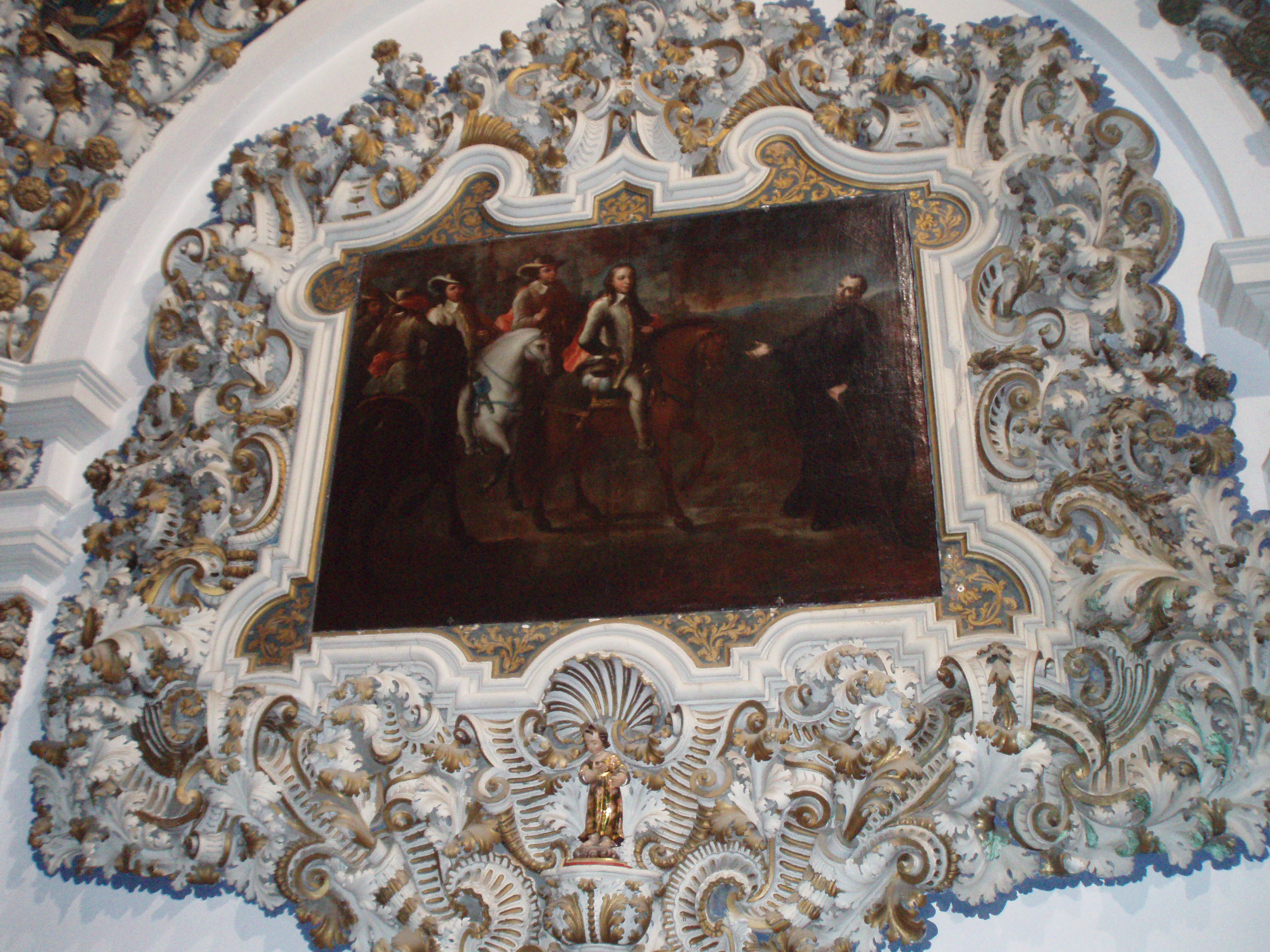 Church of Saint Peter, in the city of Córdoba. (Spain).